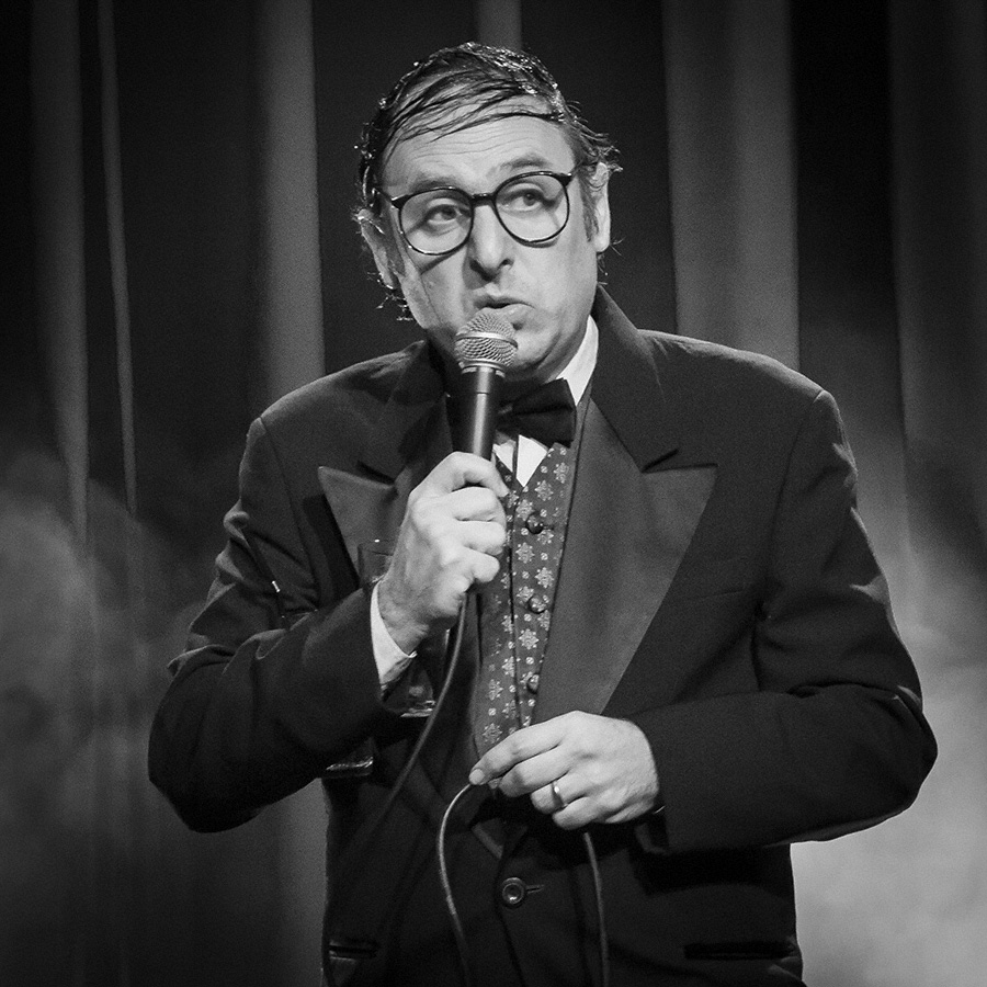 Neil Hamburger performing at the 'Crap' comedy festival in January 2016. The festival takes place at Parkteateret in Oslo. Oslo [Norway] © 2016 Tore Sætre Some rights reserved This work by Tore Sætre can be used freely under the terms of the following license: Creative Commons Attribution-ShareAlike 4.0 International License (CC BY-SA 4.0). When publishing the image, attribute this work to the photographer. Attribution instructions: 1) In the immediate vicinity of the image, credit Photo: Tore Sætre (CC BY-SA 4.0). 2) You are encouraged, but not required, to hyperlink or display this URL: 3) Send an email to and let me know which image you will use and how it will be used. Permissions beyond the scope of this license may be available at . License deed